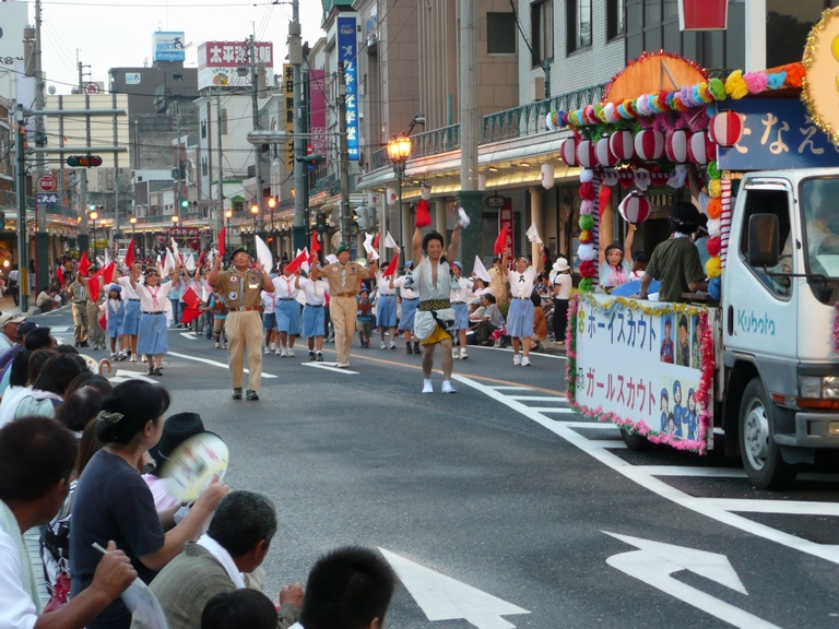 Kanoya Summer Festival in 2007